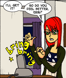 Bring bring onomatopoeic sound effect for a ringing telephone as depicted in webcomic Scary Go Round. Copyright and attribution: John Allison. This sample shows a crop from one coloured rectangular panel drawn in Ligne claire style and with yellow inked onomatopoeic text without balloons depicting a sound effect.